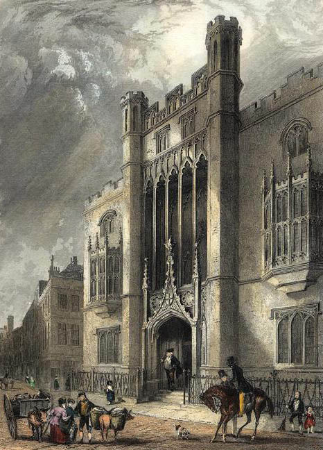 Engraving by J. Woods of the City of London School in Milk Street. Original steel engraving drawn by Hablot Browne (1815-1882) after a sketch by Robert Garland (1808-1863). This was published in The History of London Illustrated by Views in London and Westminster (1838).[1]